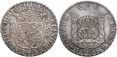 Bolivia. Carlos III. 1760-1788. AR 8 Reales (a.k.a. Spanish dollar) (39mm, 27.17 g, 12h). Potosi mint. Dated 1768 PTS (Potosi monogram). "Pillar Dollar." CAROLVS • III • D • G • HISPAN • ET IND • REX *, crowned arms; *J/R/* to left, */8/* to right VTRAQVE VNVM * PTS * 1770 * PTS, crowned hemispheres between pillars with banners inscribed, PLUS and VLTRA. KM 105.